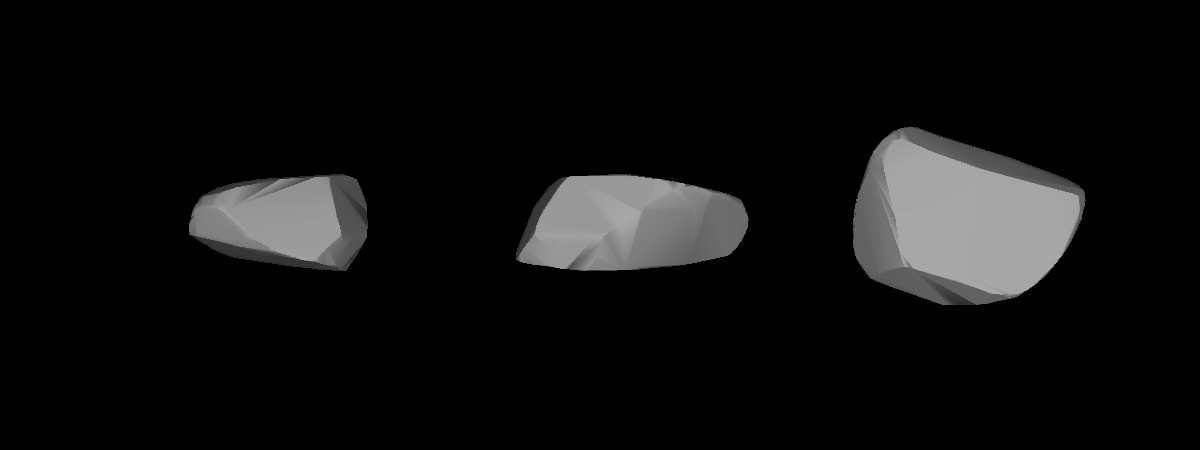 A three-dimensional model of 1286 Banachiewicza that was computed using light curve inversion techniques.